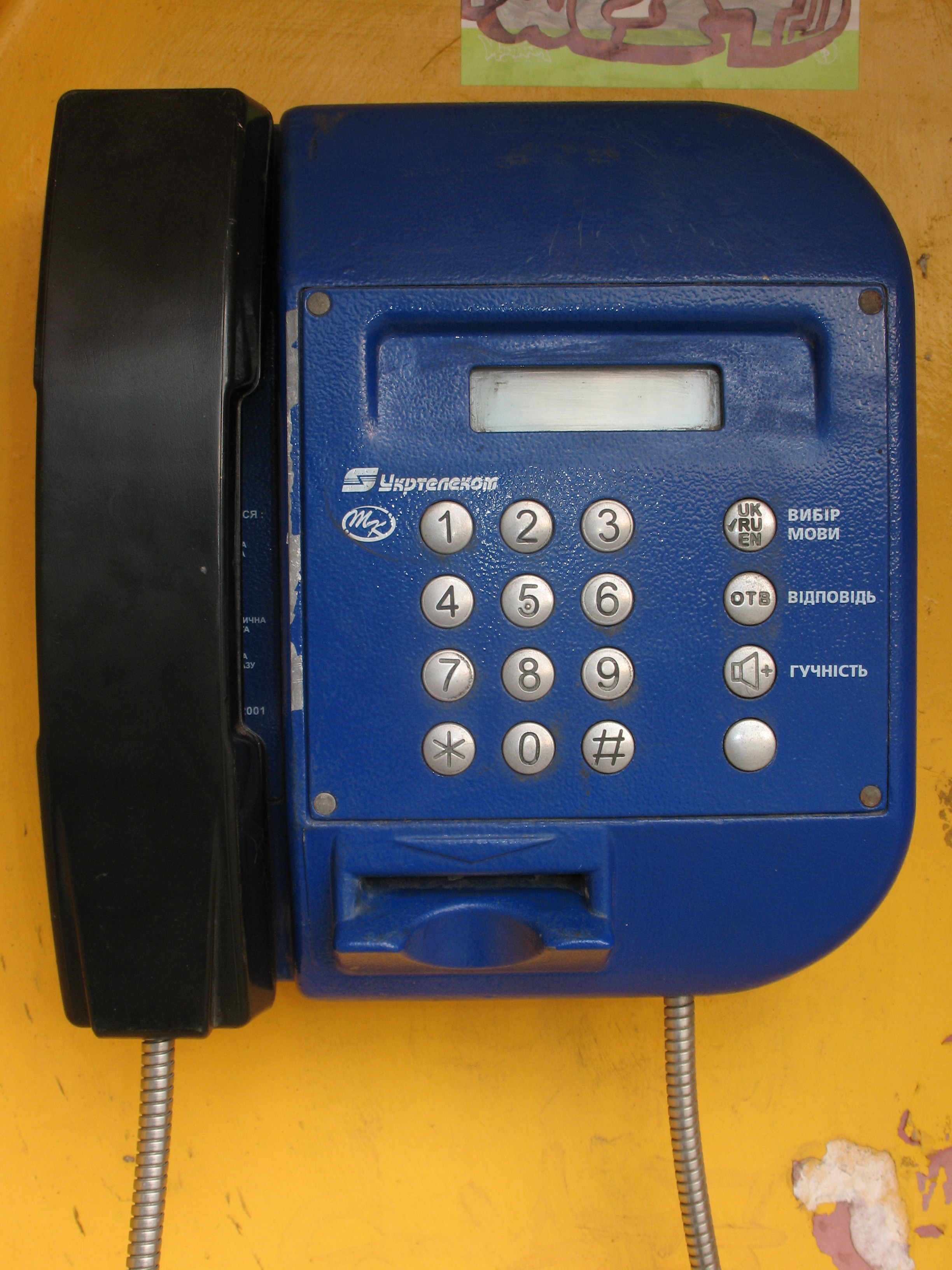 A Phone booth in Kharkov, LTD «Telekart-Pribor» production, Ukraine.